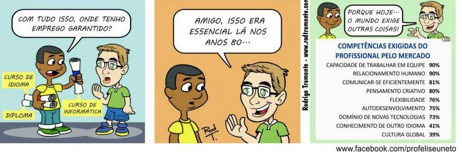 Tirinha